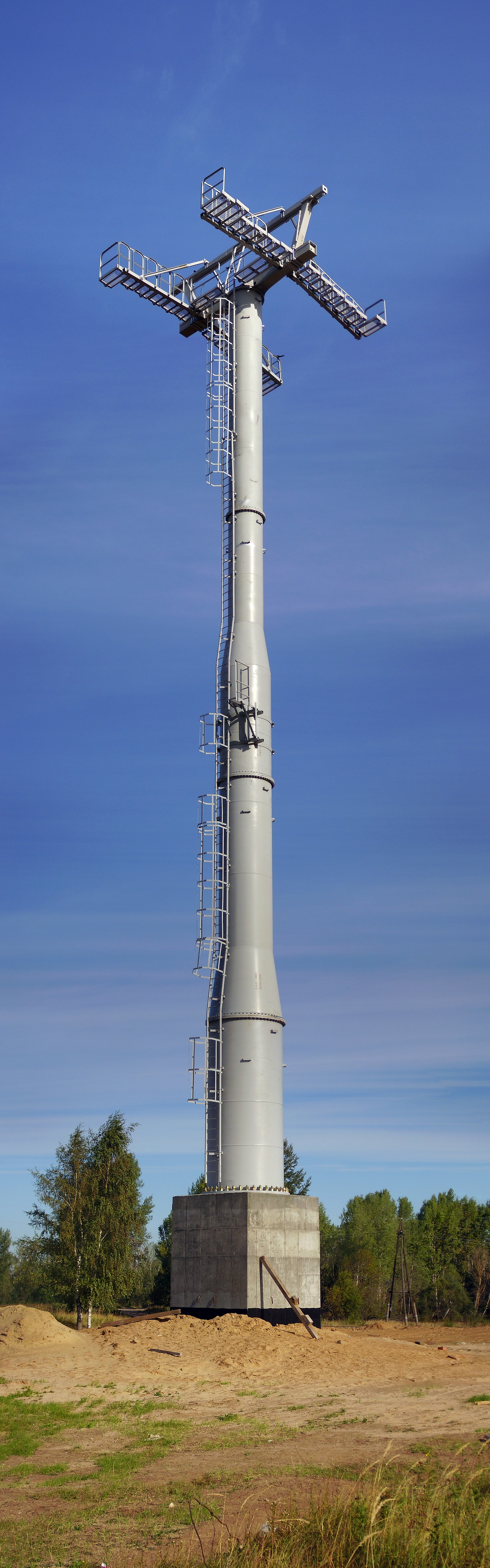 Pylon T4 of Nizhny Novgorod aerial tramway.